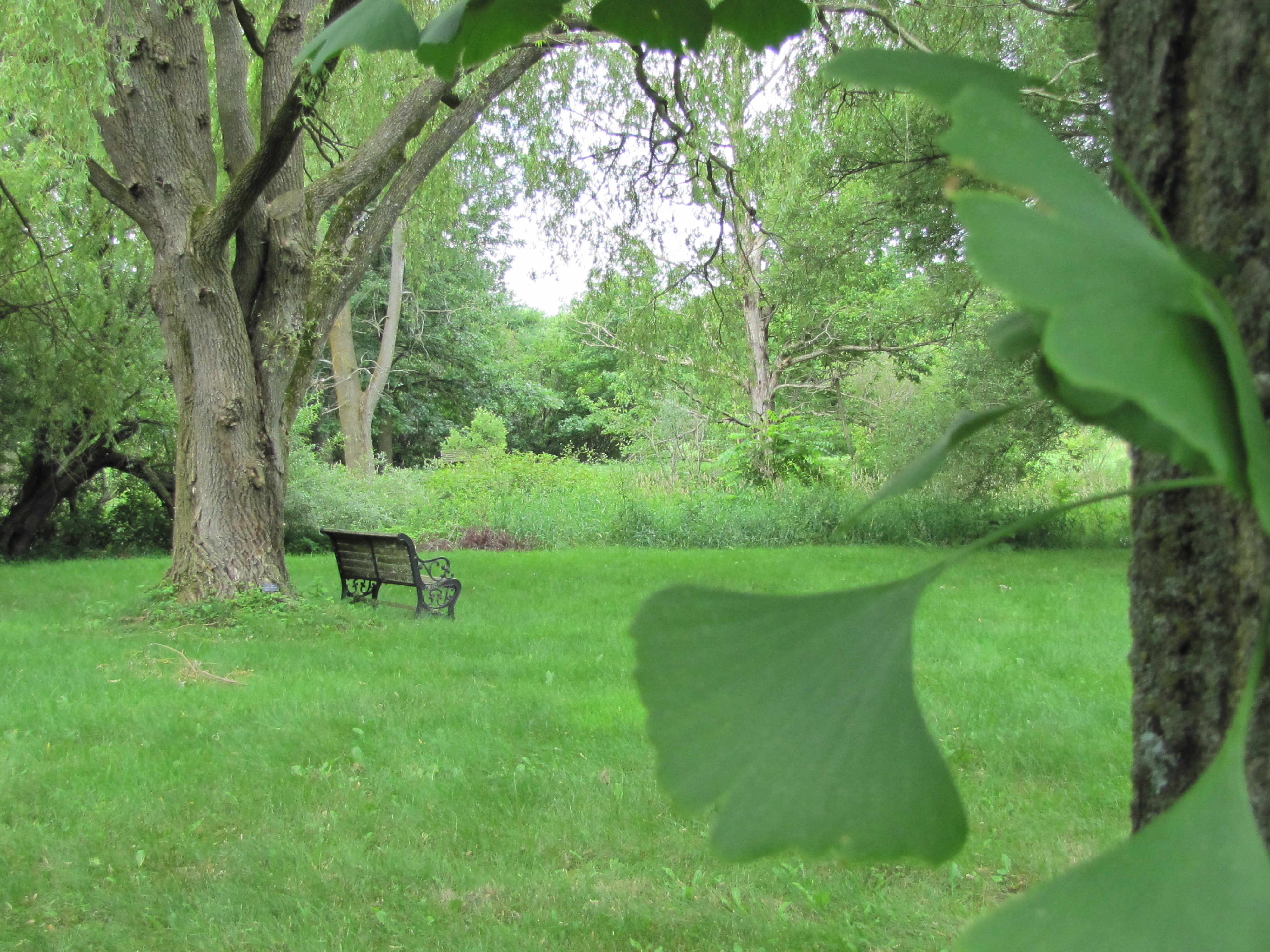 Guelph Arboretum/ ginkgo biloba